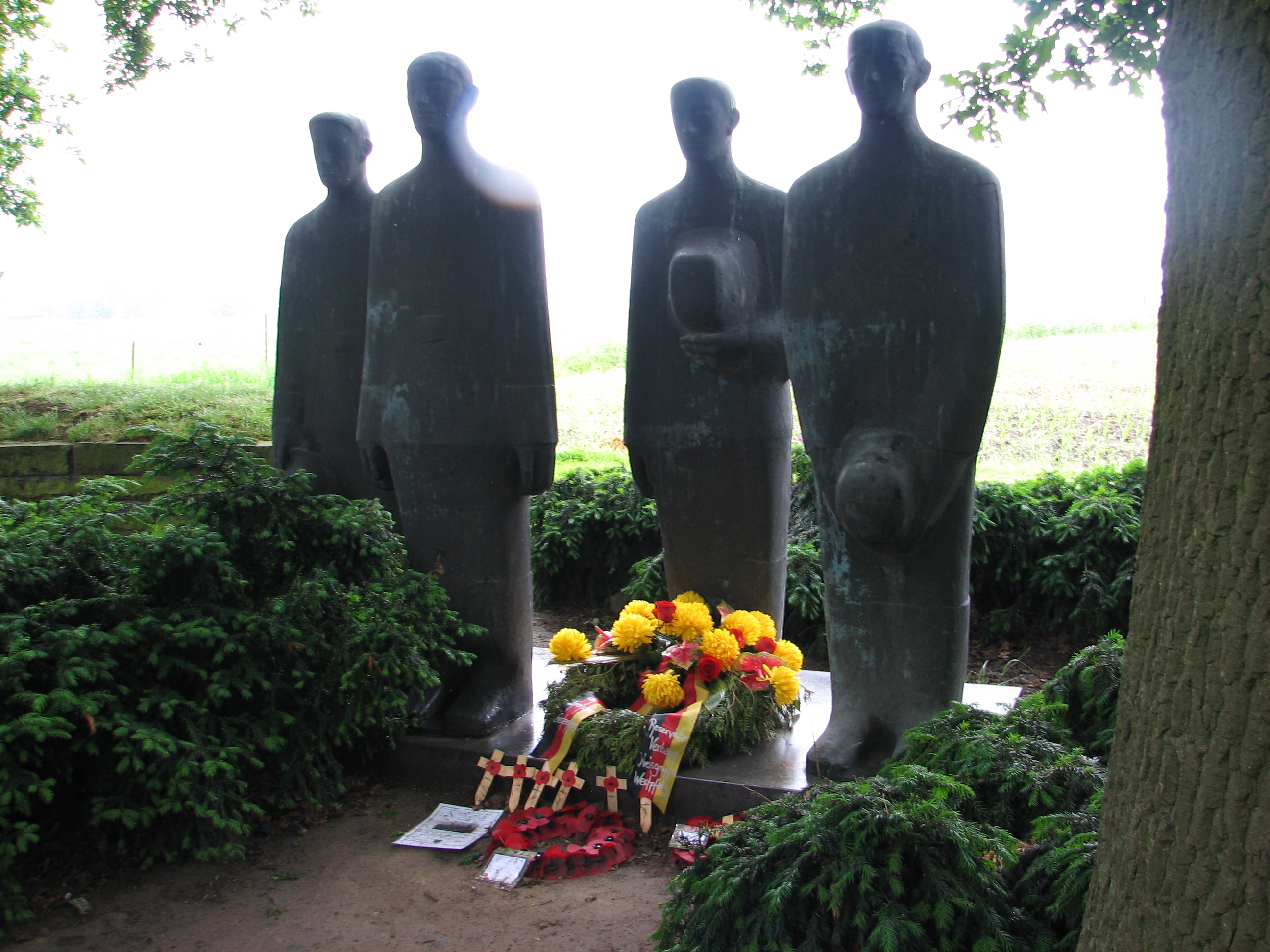 Emil Krieger's famous sculpture at the Langemark German War Cemetery in Belgium, photographed on 9 June 2010.